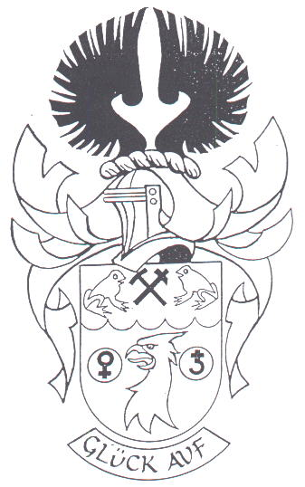 coat of arms of the city of Tsumeb, Namibia